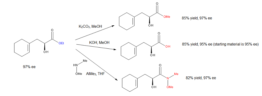 fig 18